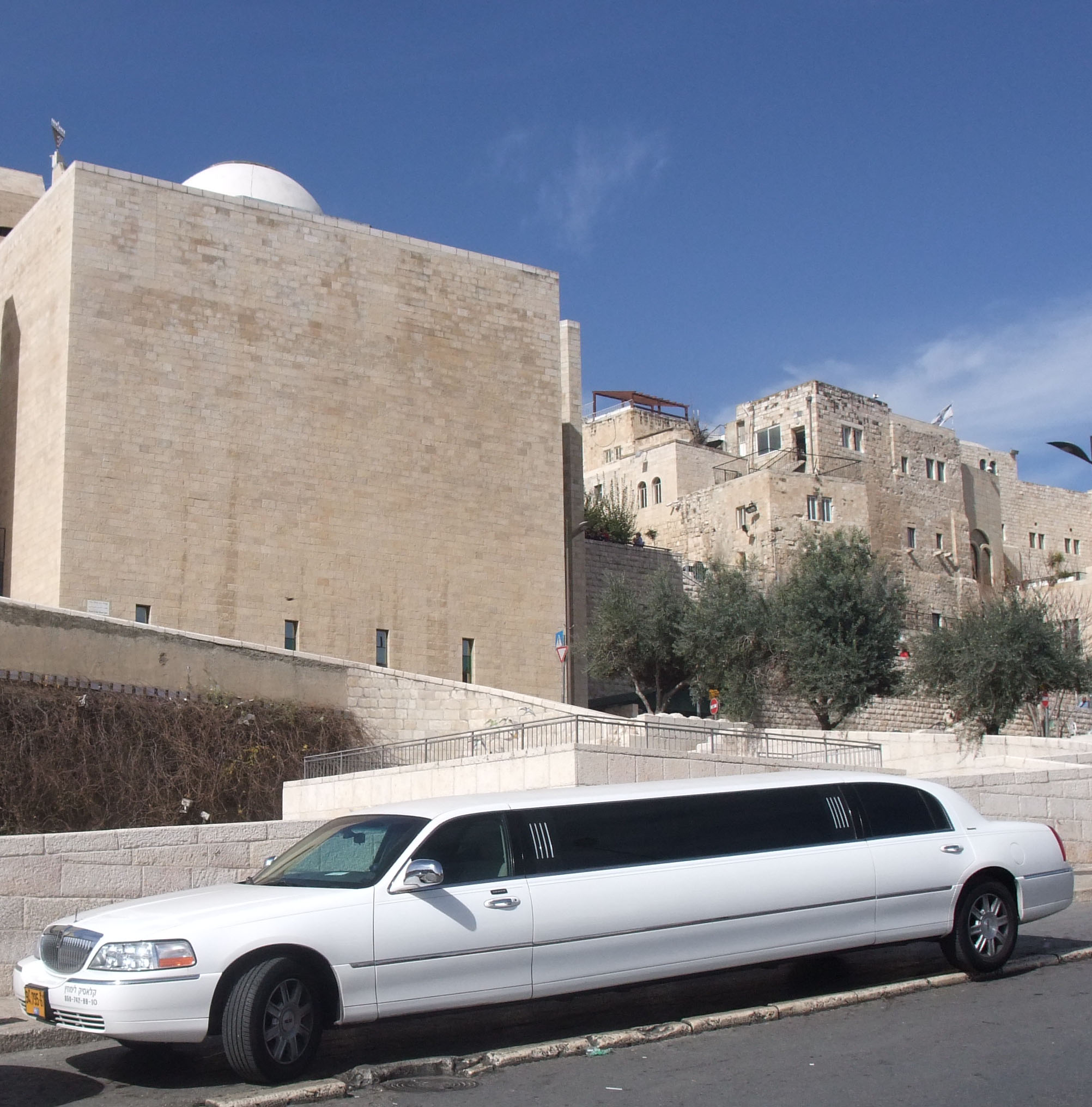 limousine on Western Wall Plaza near Porat Yossef Yeshiva